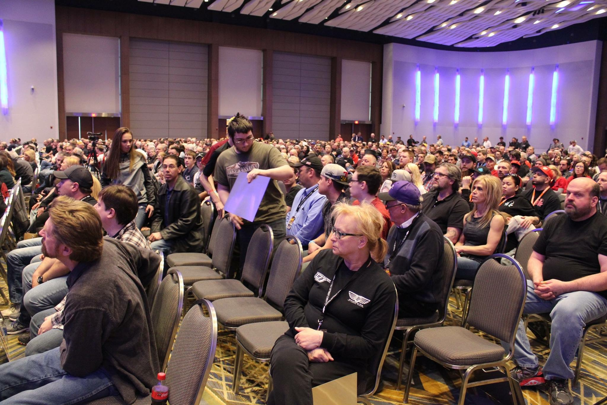 The Cobo Center Ballroom is packed for Awards on Sunday Night, Where the next Ridler Winner is set to be announced.